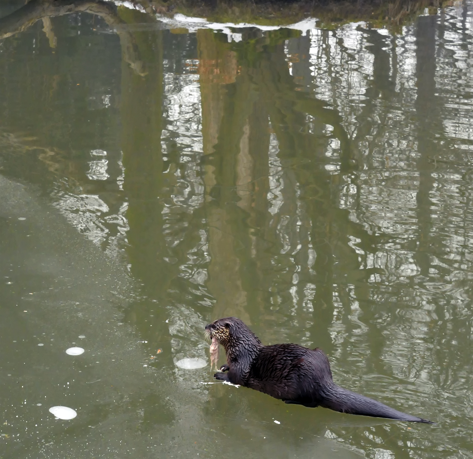 European Otter